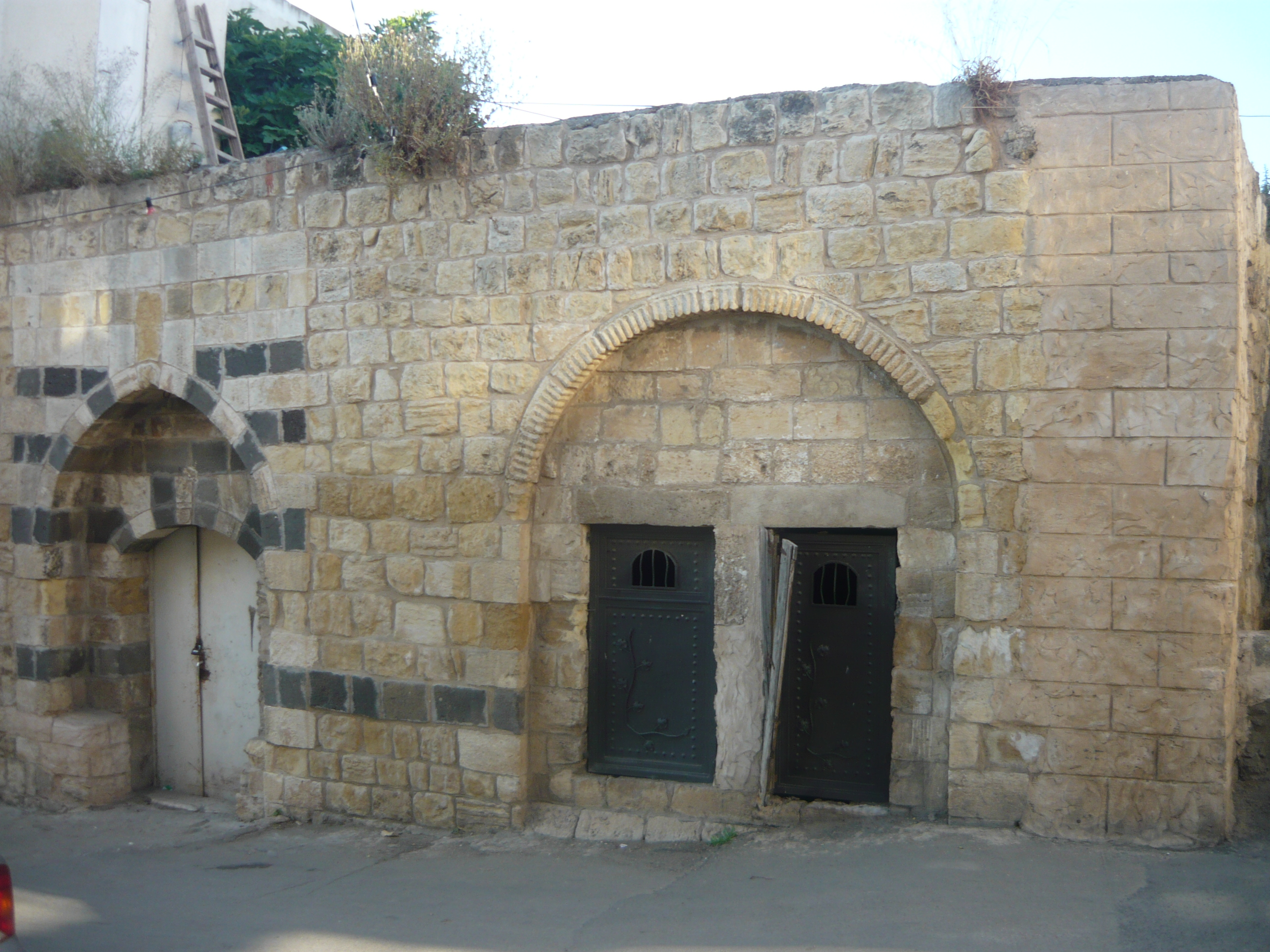 Omar El Zidani's House in Arrabe בית עומאר אל זידאני בעראבה